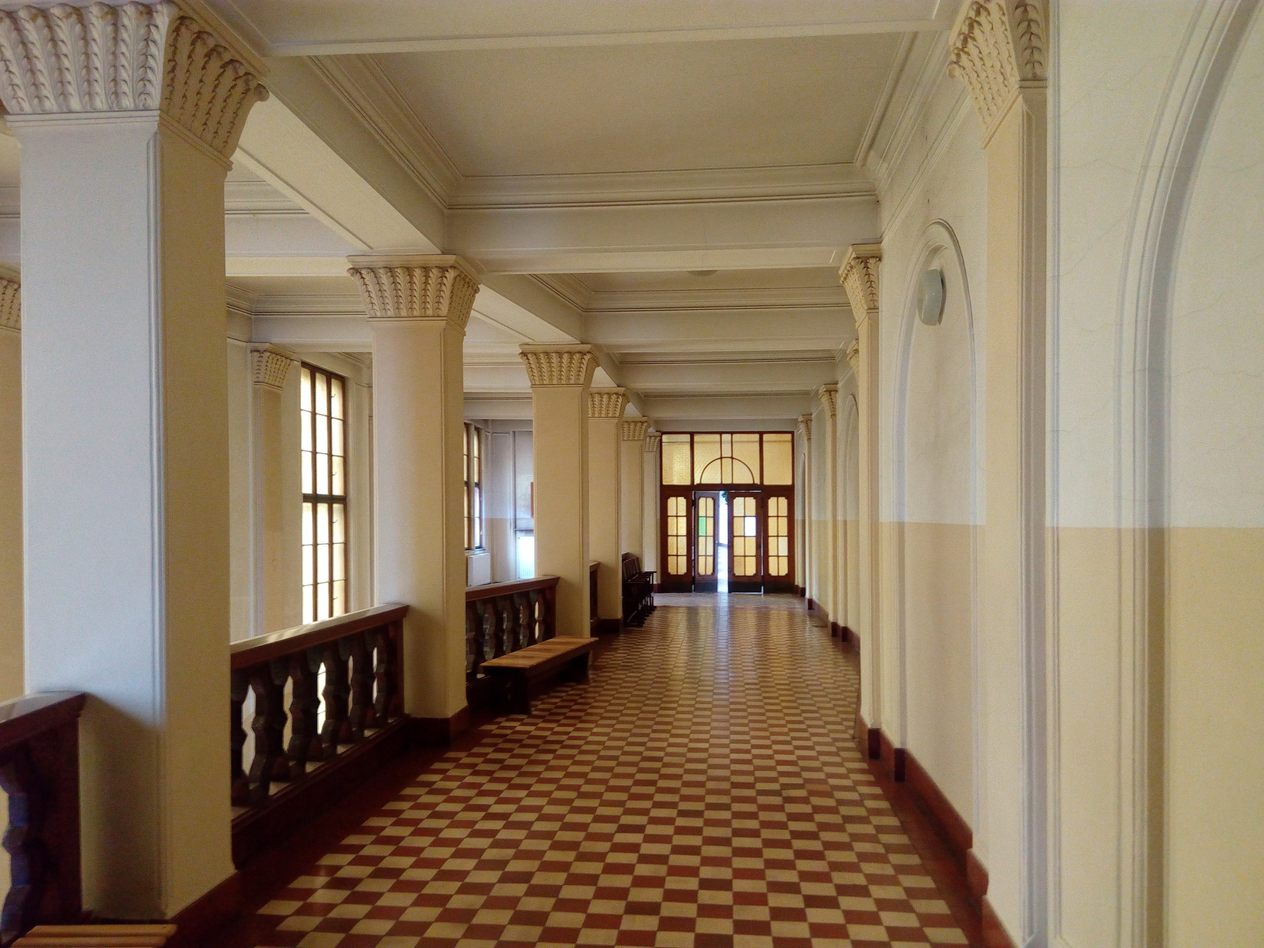 Copernicus Lyceum in Bielsko-Biała – the main hall on the second floor